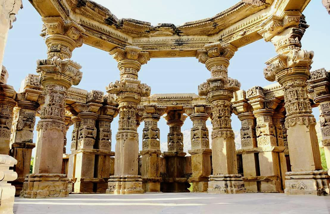 This is a glimpse of the central podium of the main temple. The portion lacks a ceiling, but bears testimony to some of the most beautiful engravings on stone.